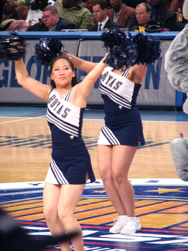 Georgetown University cheerleaders at the 2007 Big East Championship between Georgetown University and University of Pittsburgh.